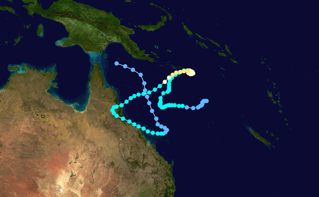 Cyclone Justin (1997) track. Uses the color scheme from the Saffir-Simpson Hurricane Scale.